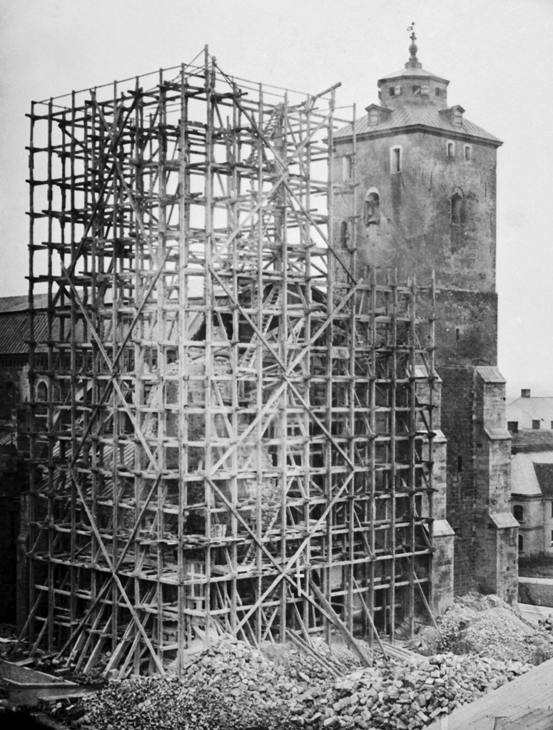 Demolition of the South Tower of Lund Cathedral. During the restauration by Helgo Zettervall in 1860-1880, the medieval towers were demolished and replaced by new towers in old style. The Romanesque cathedral, one of the oldest churches in Scandinavia, was inaugurated in 1145.